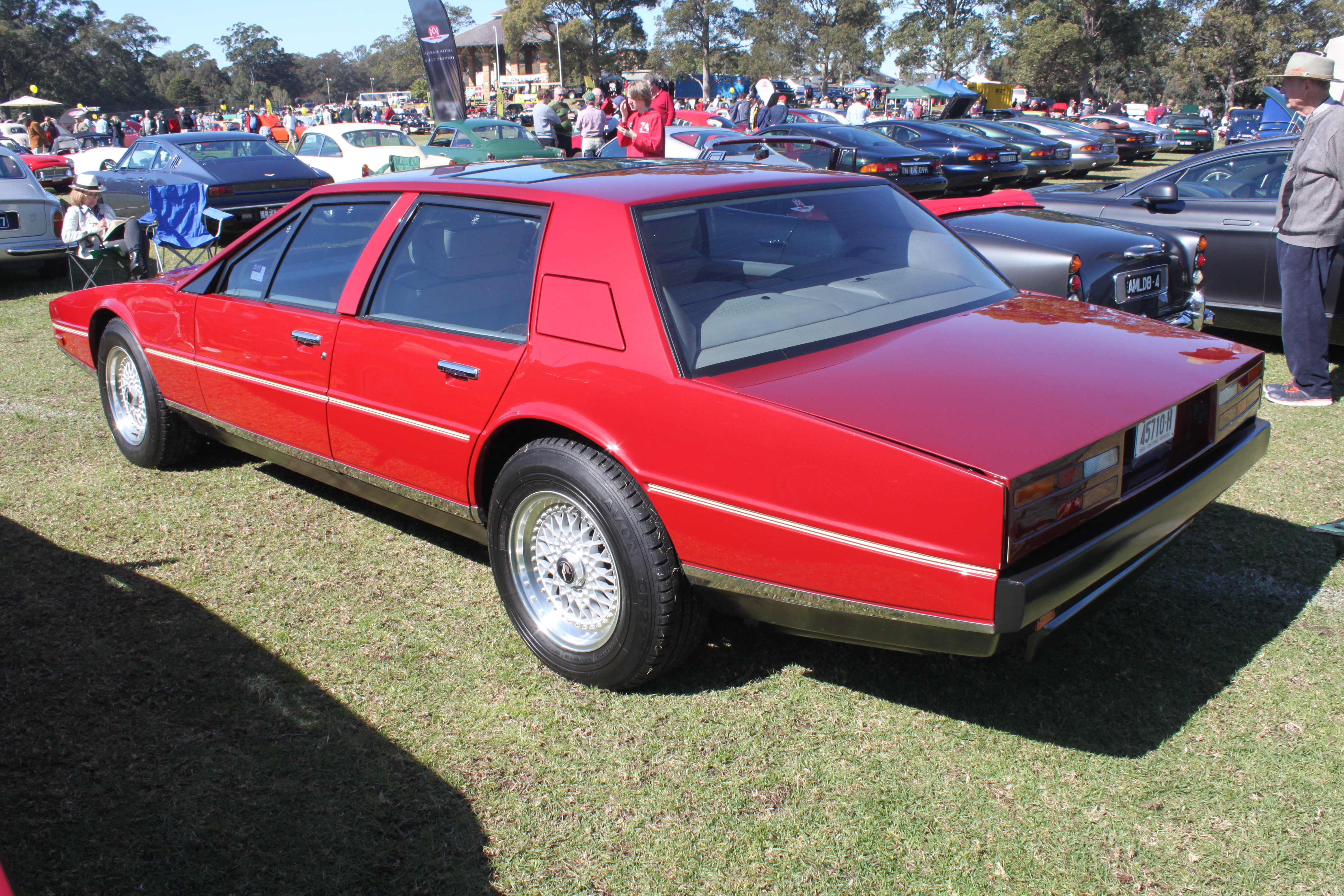 All British Day, Kings School, North Parramatta, NSW August 2015